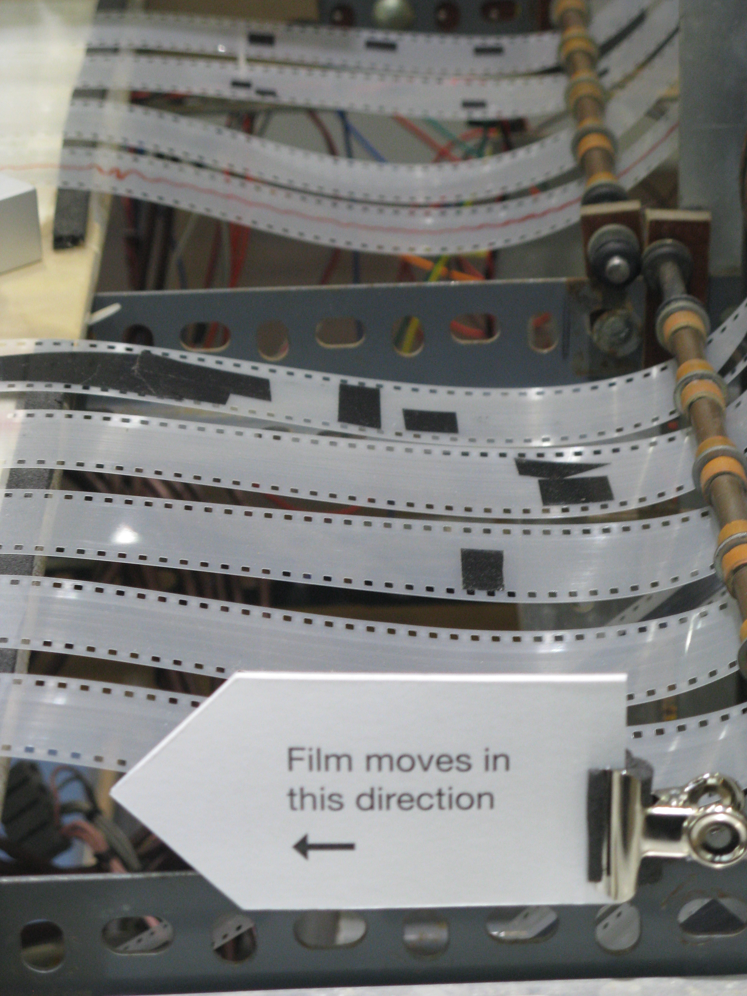 Oramics Machine for drawn sound designed by Daphne Oram in 1957 exhibited at Science Museum in London from 29 July 2011 to 1 December 2012. “Oramics to Electronica: Revealing Histories of Electronic Music”